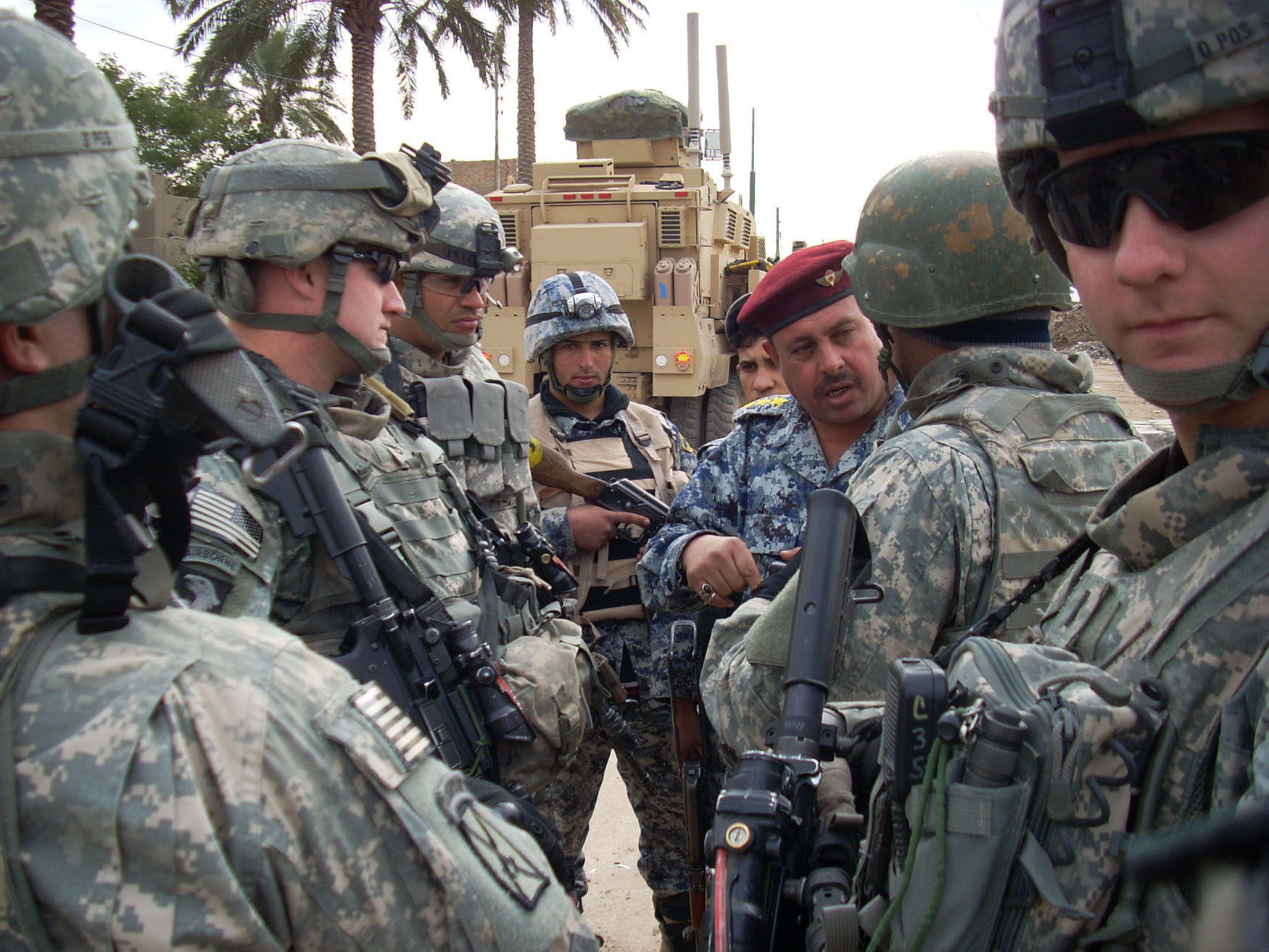 Soldiers from the 1st Battalion, 505th Parachute Infantry Regiment, attached to the 1st Brigade Combat Team, 4th Infantry Division, Multi-National Division ñ Baghdad, meet with Iraqi national police Capt. Rahan, assigned to the 2nd Battalion, 7th Brigade, 2nd National Police Division, Dec. 27, about a failed bomb maker who earlier in the day accidentally killed himself while mixing homemade explosives in a local neighborhood in the Doura community of the Rashid District. The "Panthers" of the 1st Bn., 505th PIR are tentatively scheduled to replace the 2nd Bn., 4th Inf. Regt., part of the 4th BCT, 10th Mountain Div., out of Fort Polk, La., which is scheduled to redeploy in early January upon completing its 14-month mission.